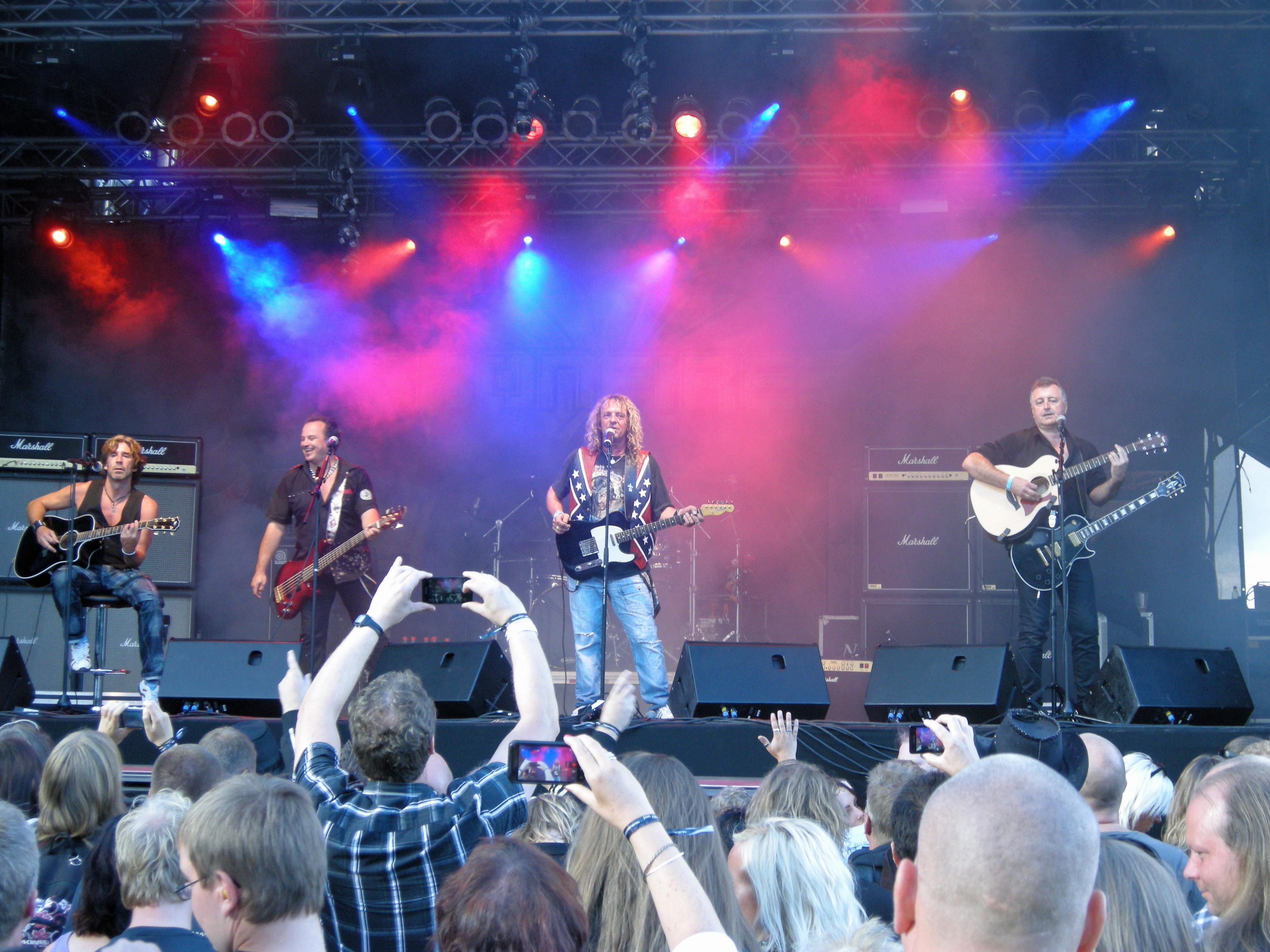 German heavy metal band Bonfire at Skogsröjet, Rejmyre, Sweden 2012